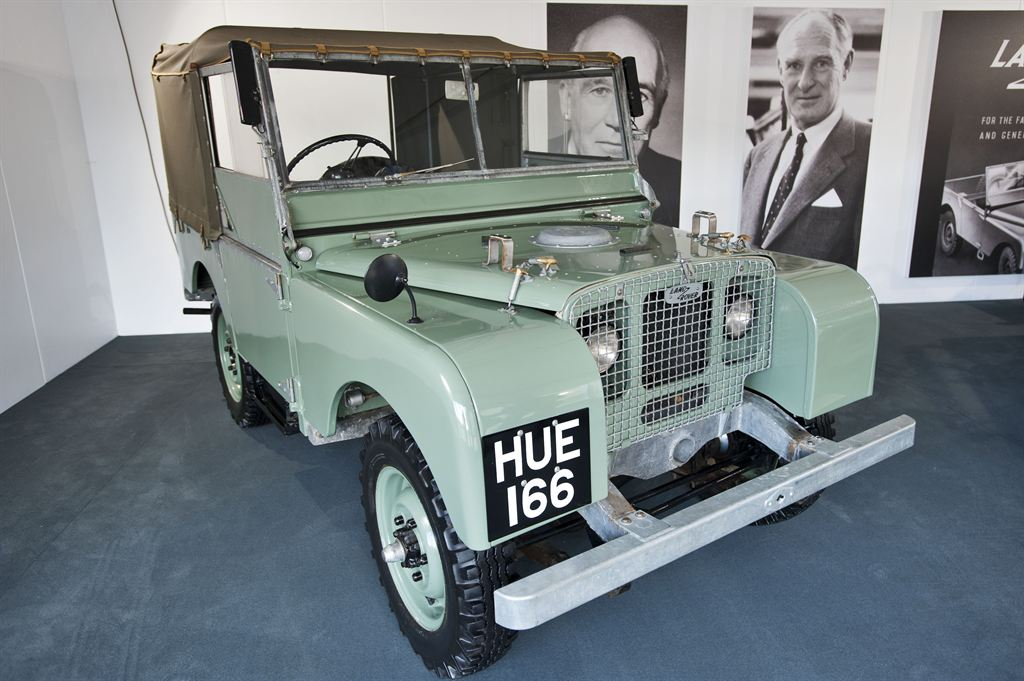 Land Rover marks 65 years of technology and innovation with a celebratory event at Packington Estate near Solihull.